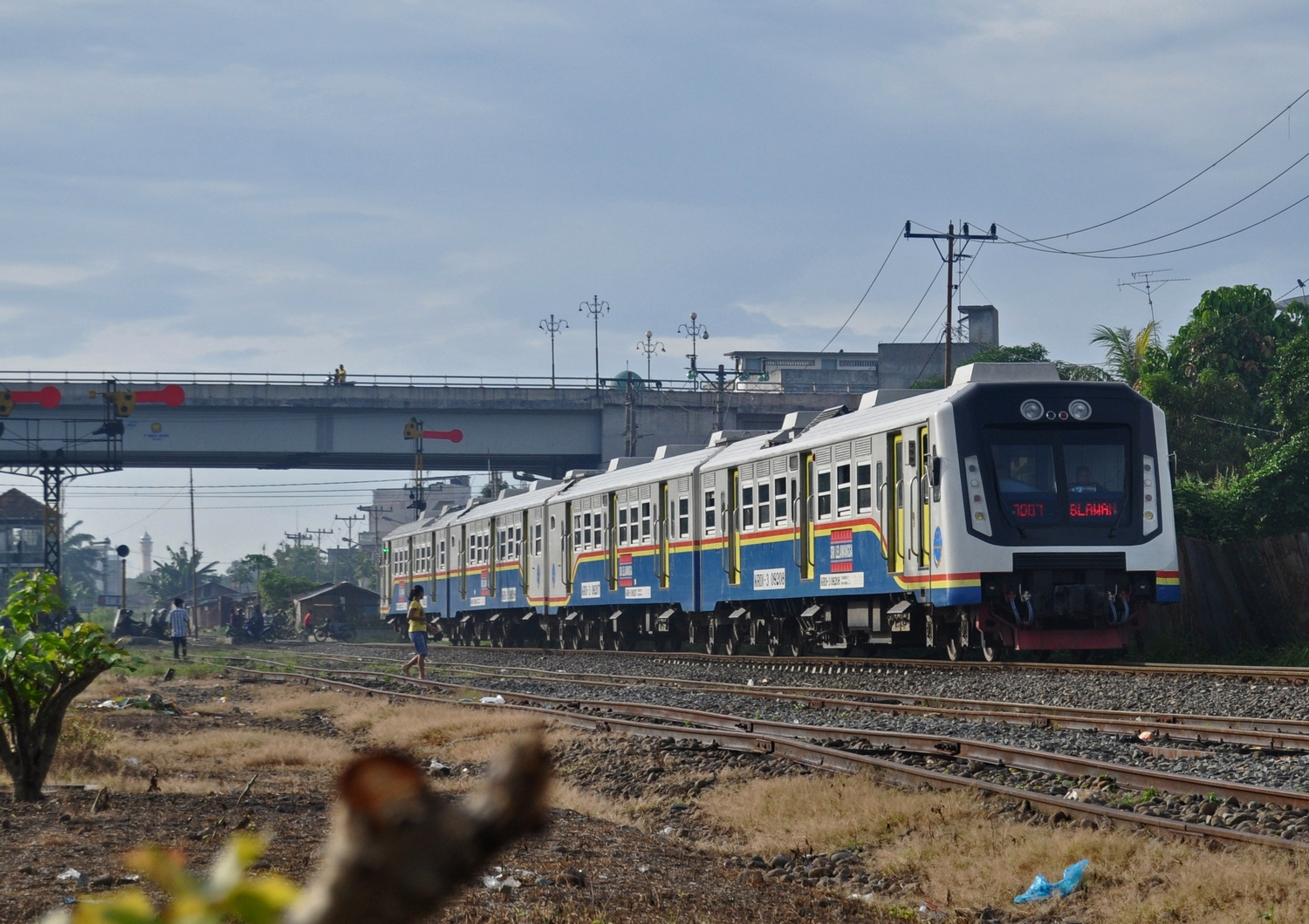 Sri Lelawangsa diesel-multiple-units at Pulu Brayan (PUB) train station in Medan, North Sumatra.